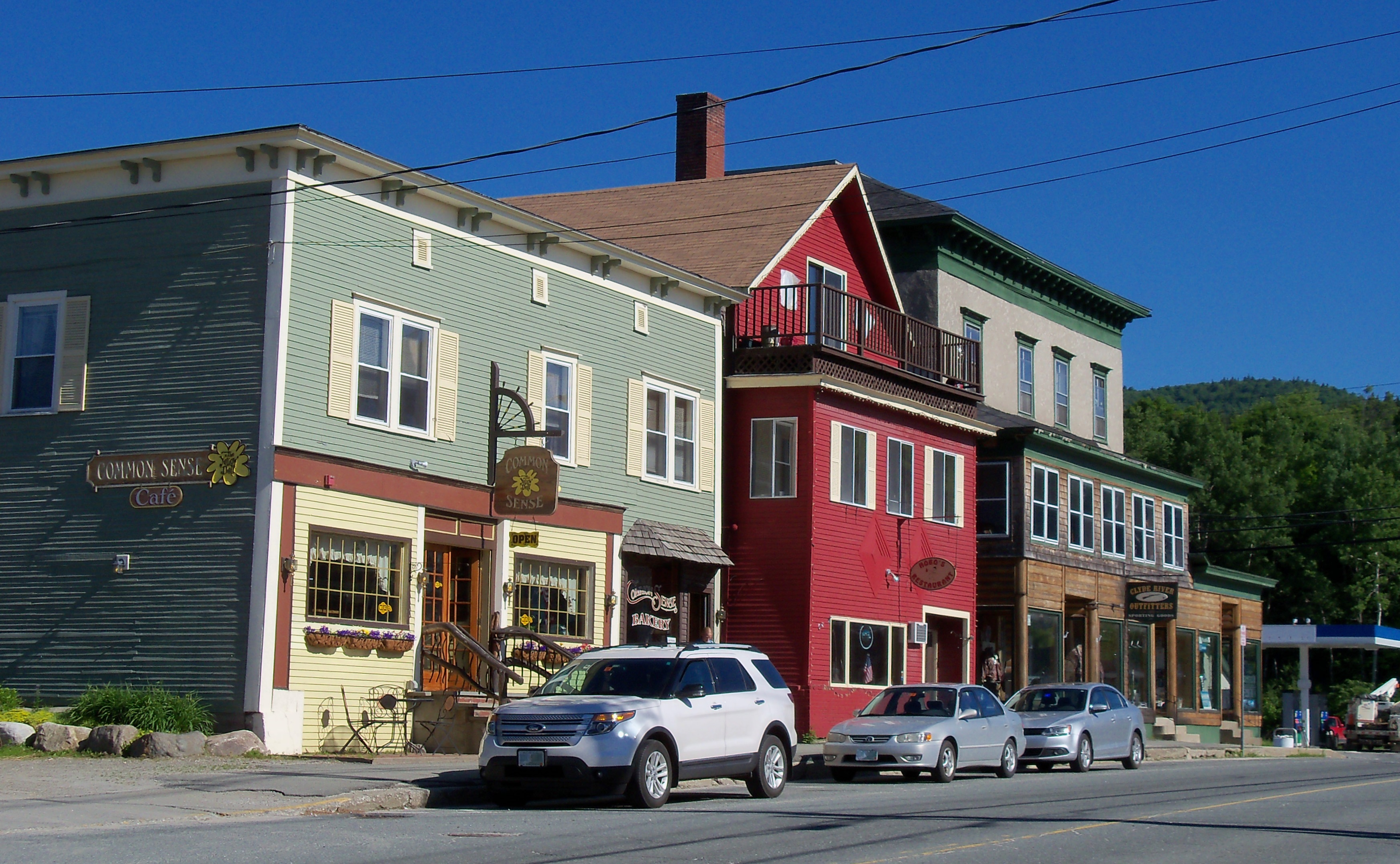 Buildings in downtown Island Pond, Vermont, USA.